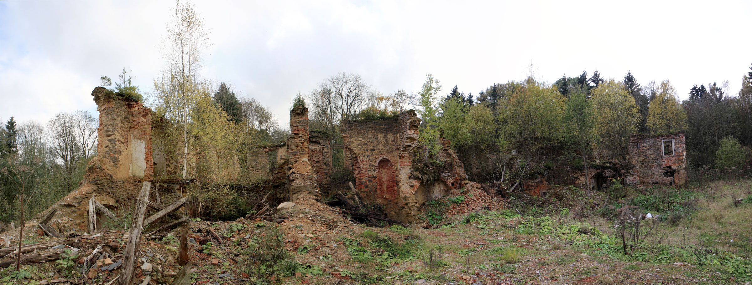 Ruin of baroque-style Chateau Horni Luby, a small village in west Bohemia (Czech Republic)